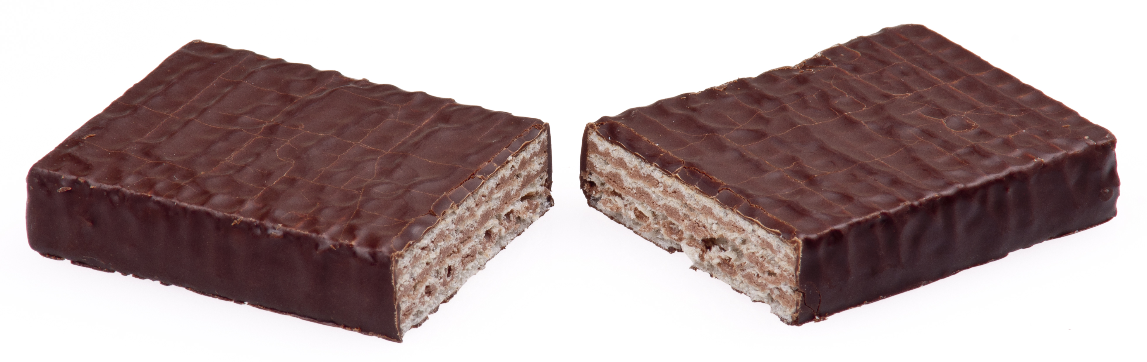 A dark chocolate Prince Polo candy bar, made by Olza and Kraft.